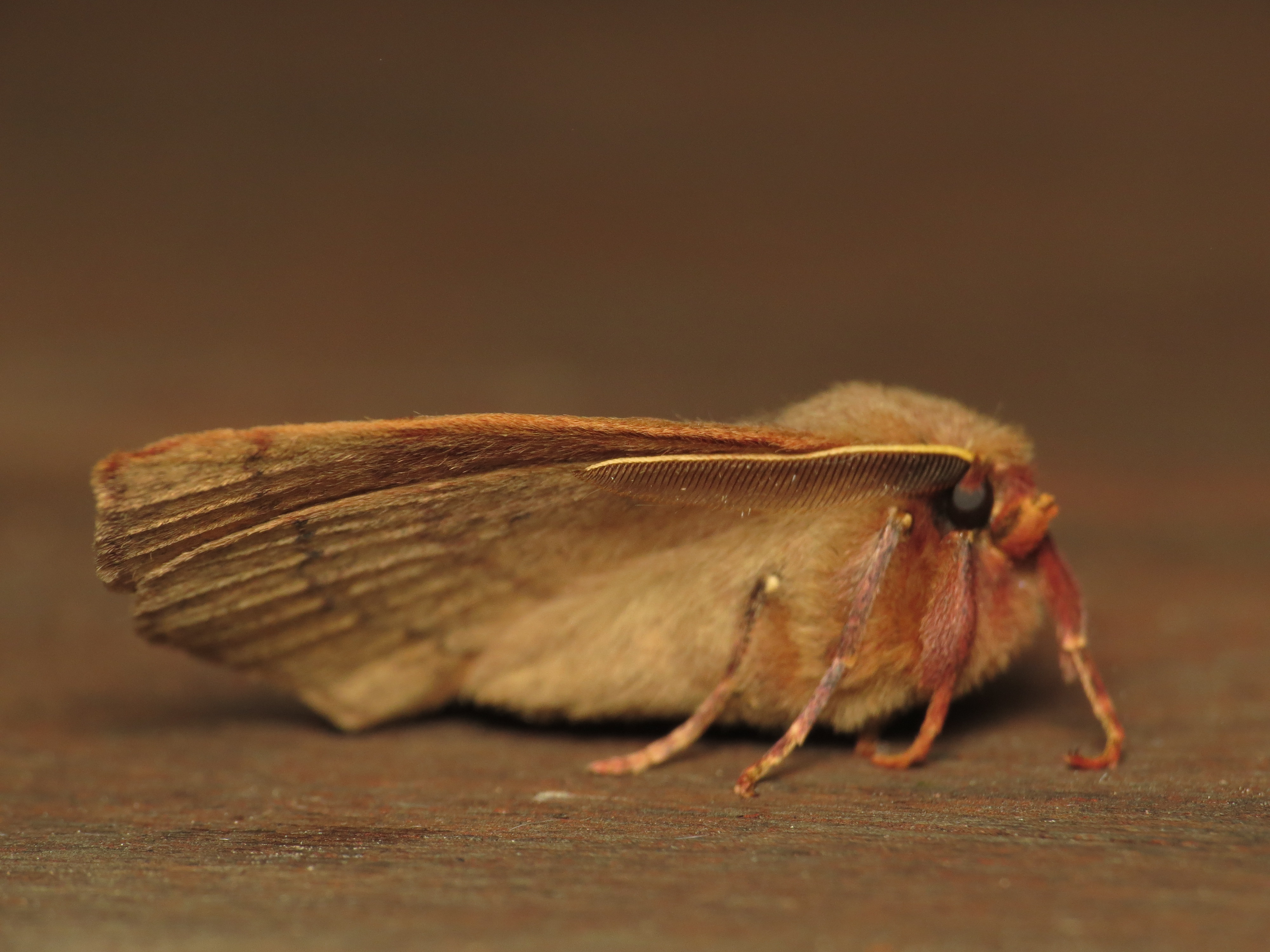 Anthela nicothoe (Boisduval, 1832), to actinic light, Blackheath, NSW, 9/10 November 2014